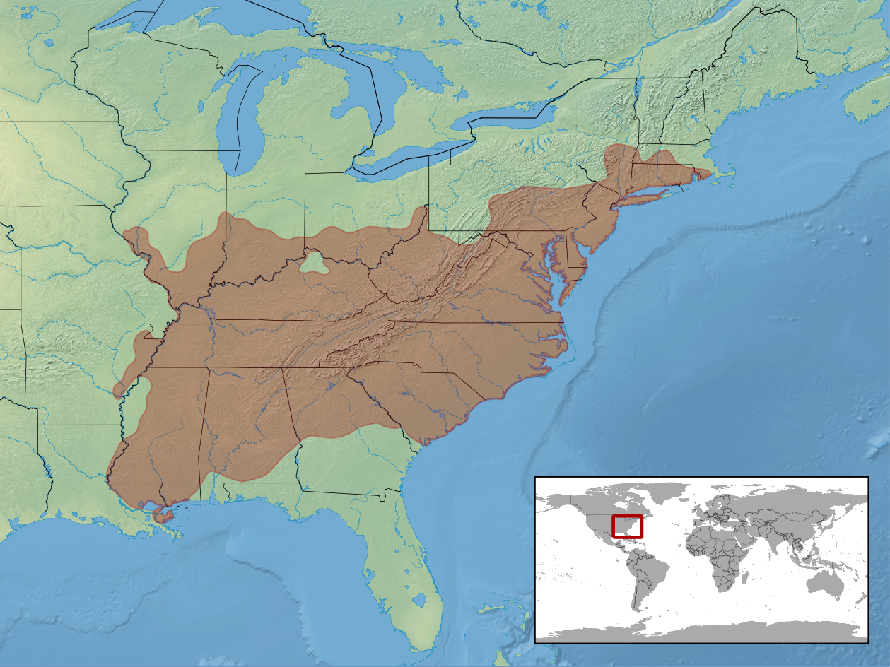 geographic distribution of Carphophis amoenus (Native: United States)